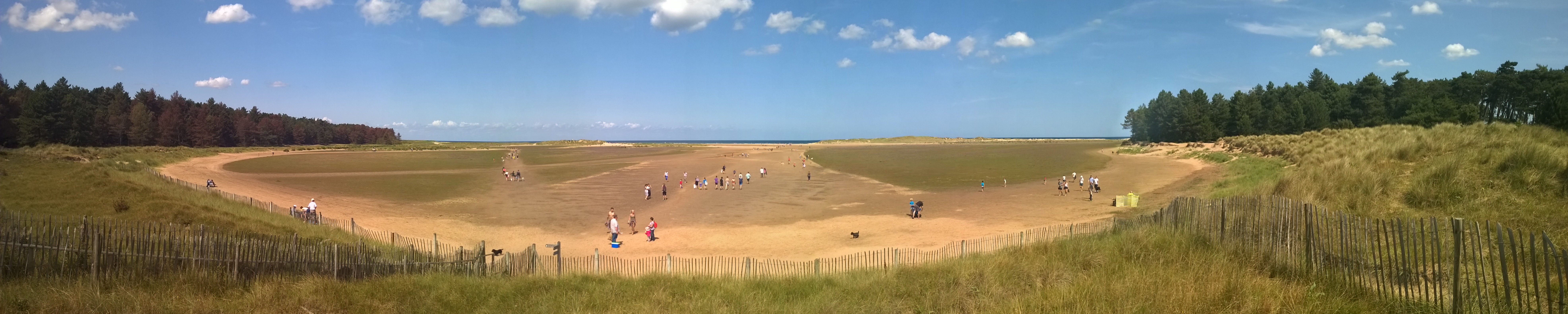 The Holkham Gap in summer